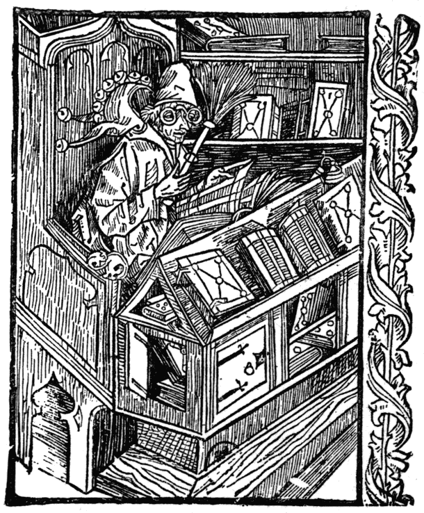 The Bibliomaniac, from 'Navis Stultifera' (The Ship of Fools).